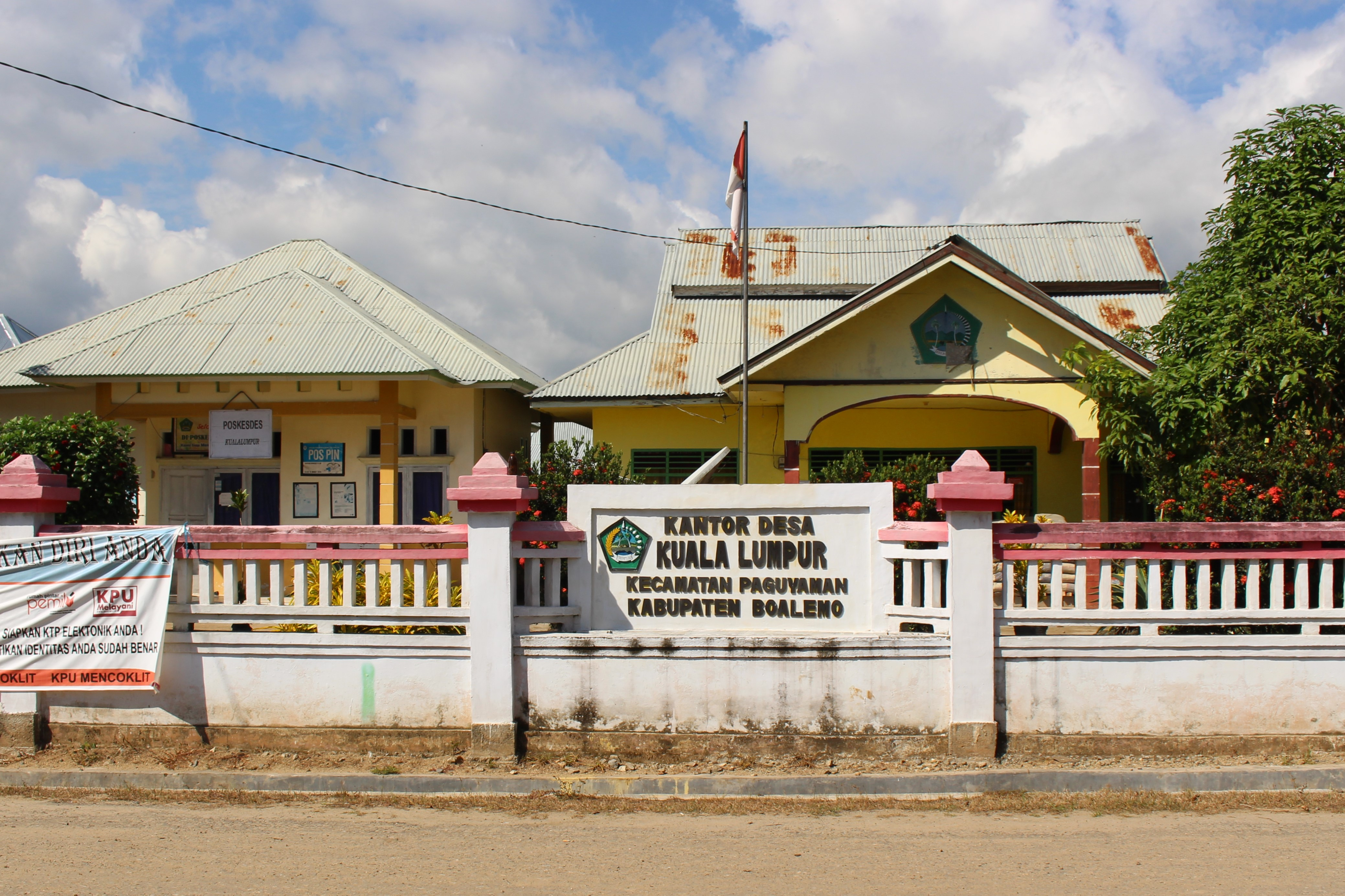 Kantor Desa Kuala Lumpur, Kecamatan Paguyaman, Kabupaten Boalemo, Provinsi Gorontalo, Indonesia.